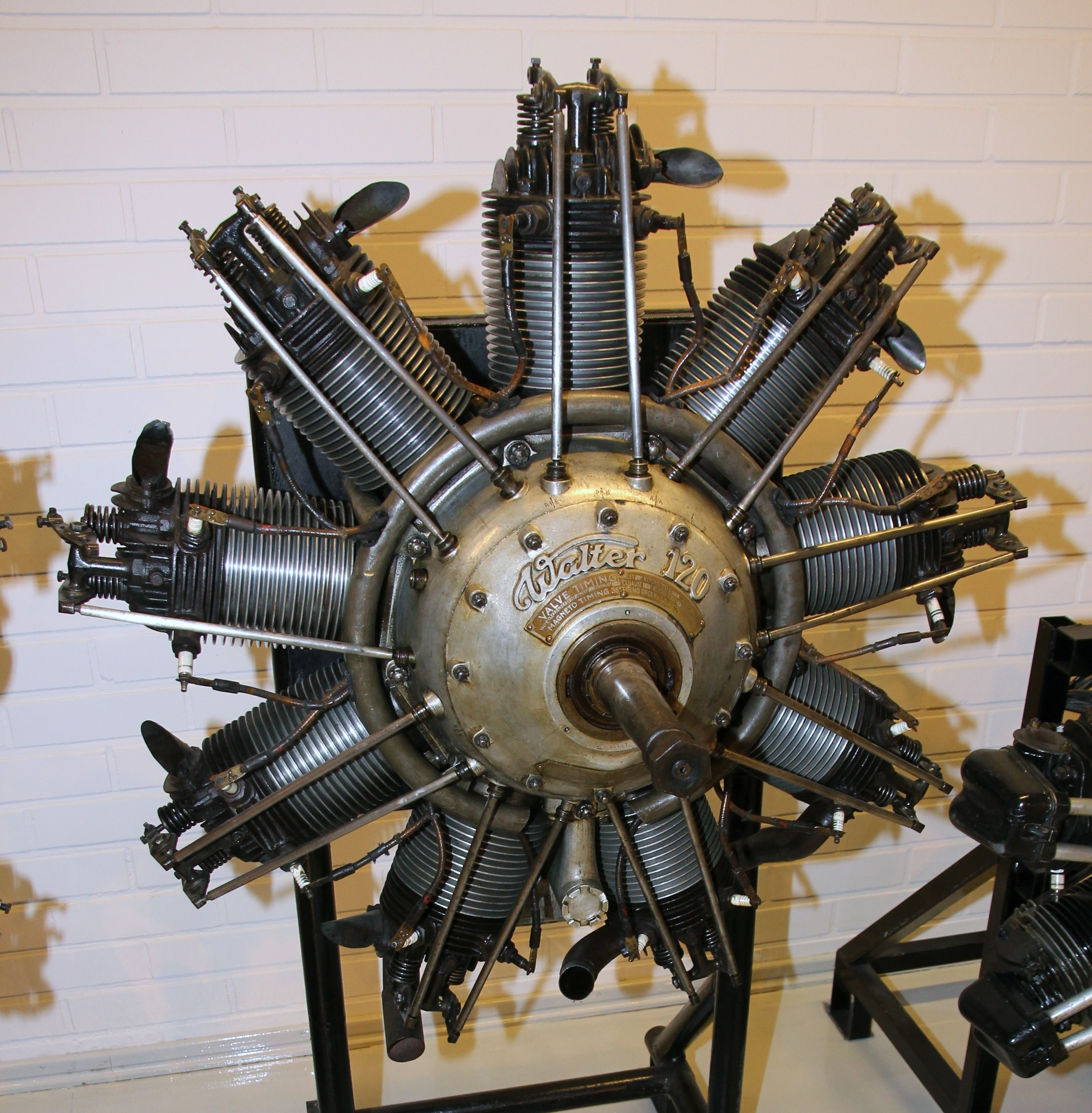 Walter NZ-120 aircraft engine in the Aviation Museum of Central Finland.